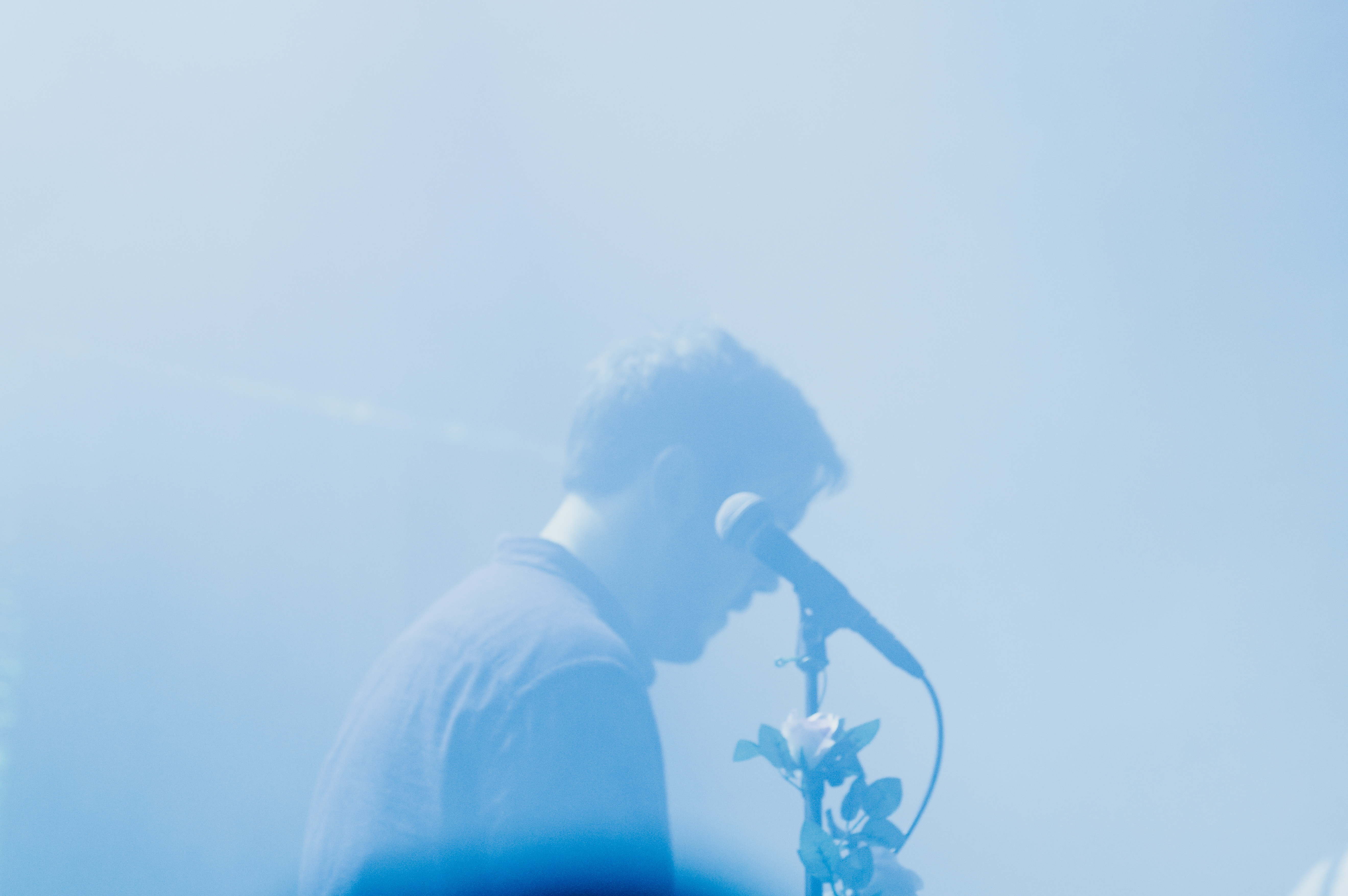 shallou performing at lincoln hall in chicago